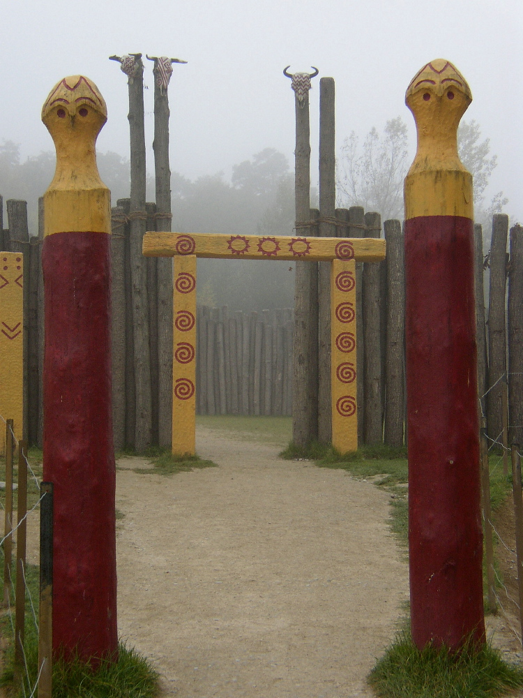 Reconstruction of circular ditches, Niederösterreichische Landesausstellung (Lower Austria Country Exhibition) 2005 at Heldenberg